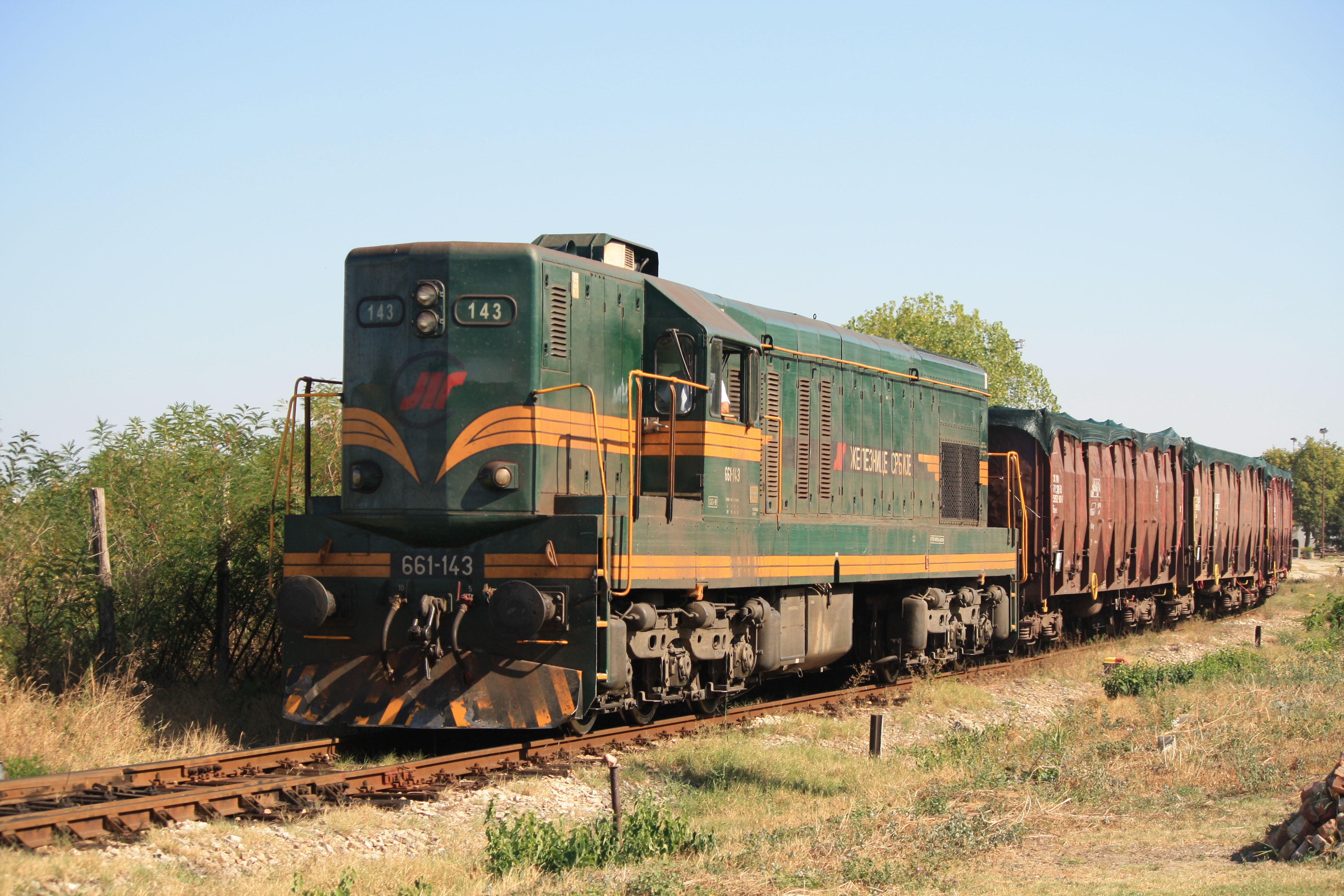 ŽS 661-143 freight-train leaving Šabac train station. Српски (ћирилица): Tеретни воз предвођен локомотивом ЖС 661-143 напушта железничку станицу у Шапцу.